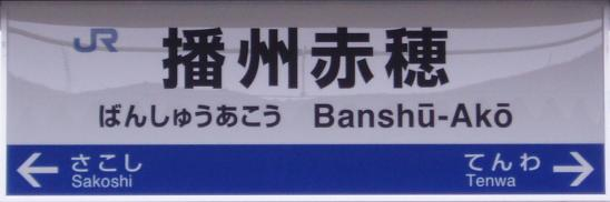 West Japan Railway Ako Line Banshu-Ako Station Signboard 西日本旅客鉄道 赤穂線 播州赤穂駅 駅名標